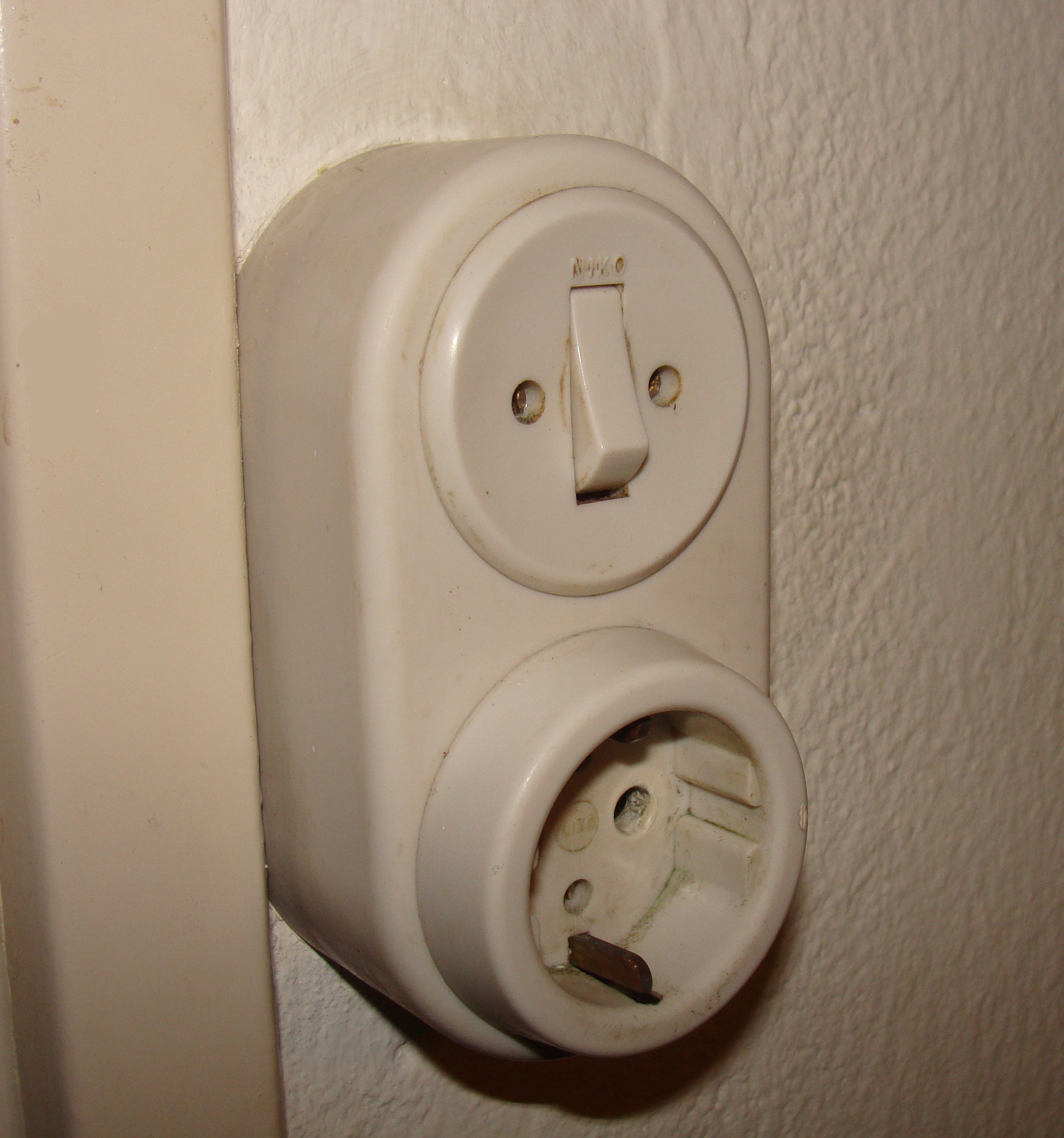 AC power outlet-cum-light switch of the Belgian Niko corporation, 1960s